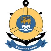 SLCG LOGO